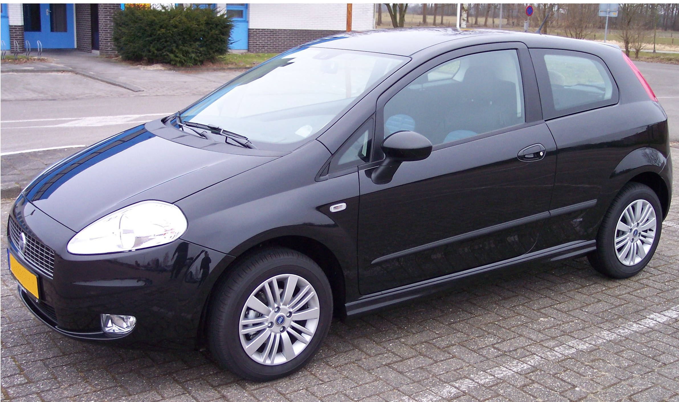 Fiat Grande Punto. Same as other version except the front license plate is cleaned up.